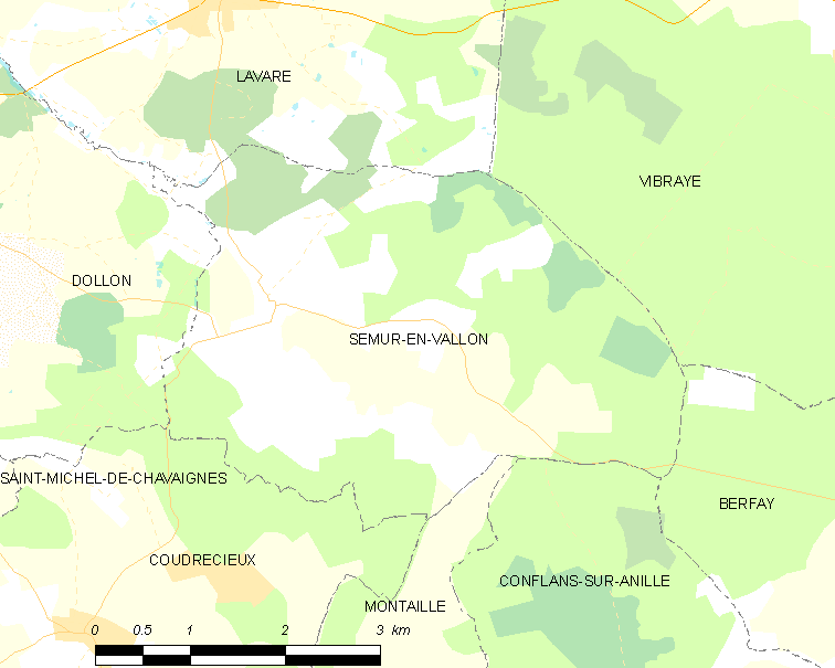 Map of French municipality